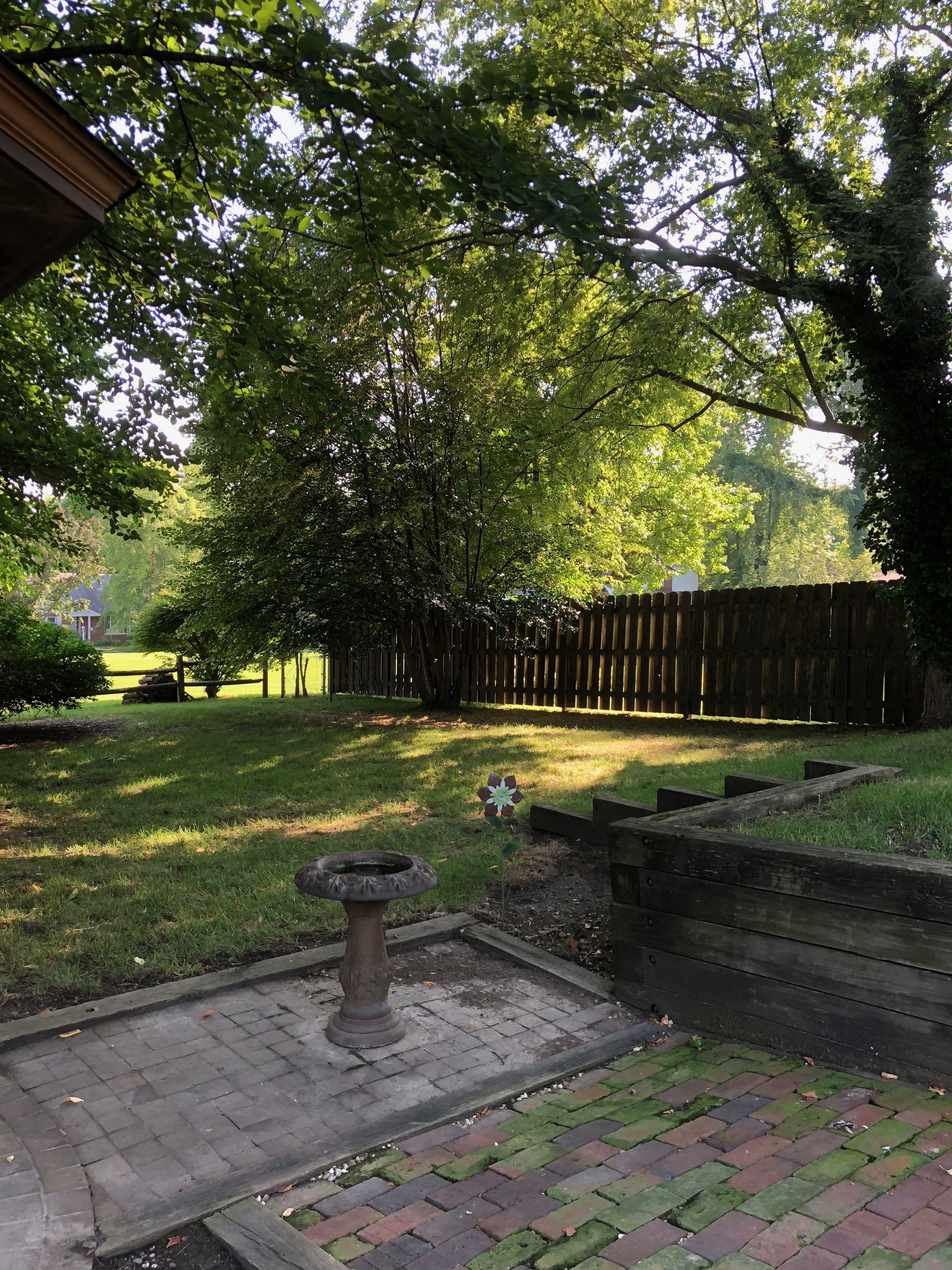 This photo was taken 17 June, 2018